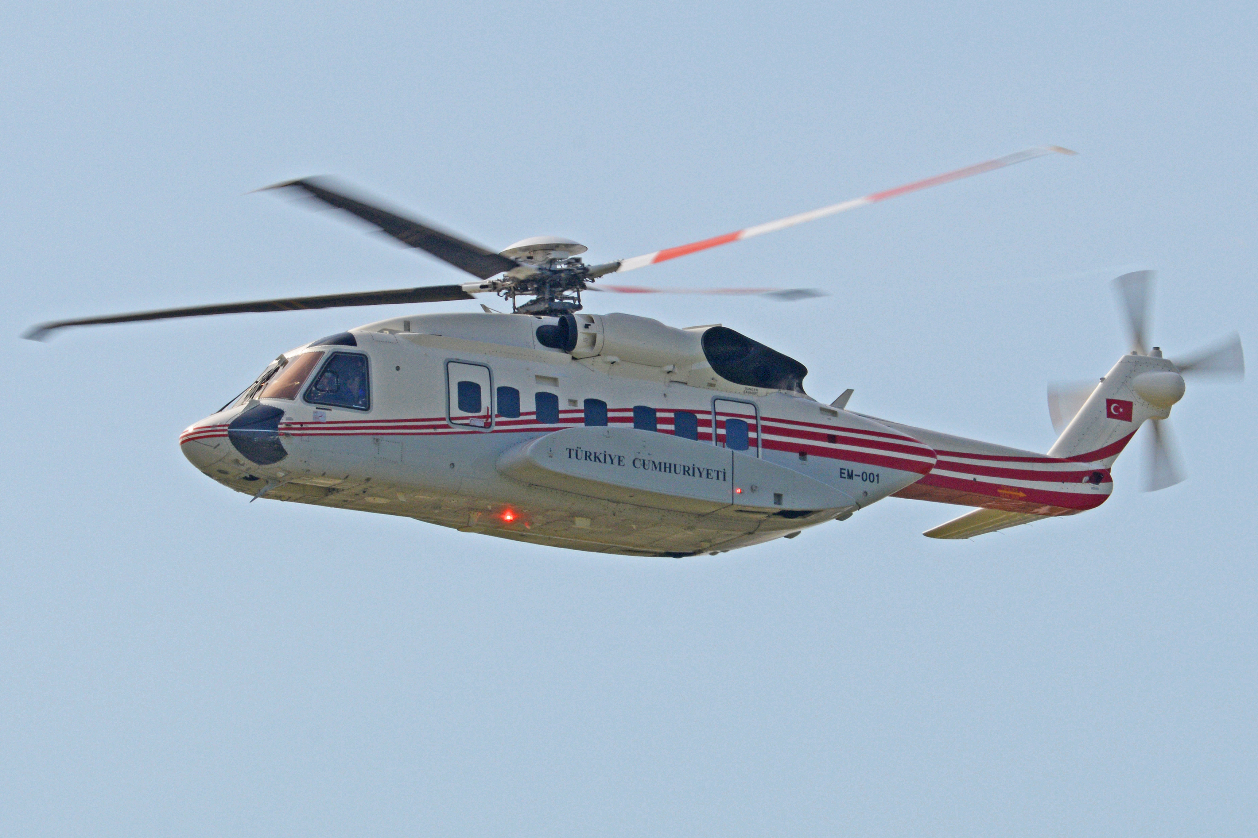 c/n 92-0168. Operated by the Türk Emniyet Teskilati Genel Müdürlügü (Turkish Ministry of the Interior) on VIP flights. Seen departing London Stansted Airport, Essex, UK. 7th May 2016